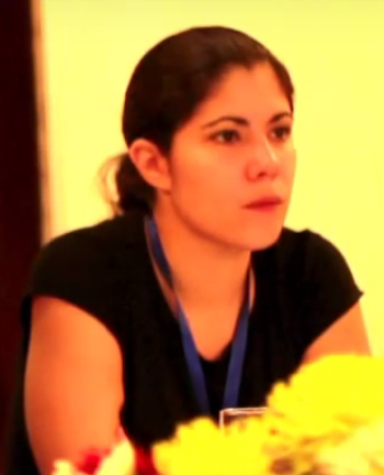 Joana Mortágua, Portuguese MP for the Left Bloc, in the Asia-Europe Peoples' Forum Press Conference, 19 October 2012, Chantapanya Hotel, Vientiane Laos